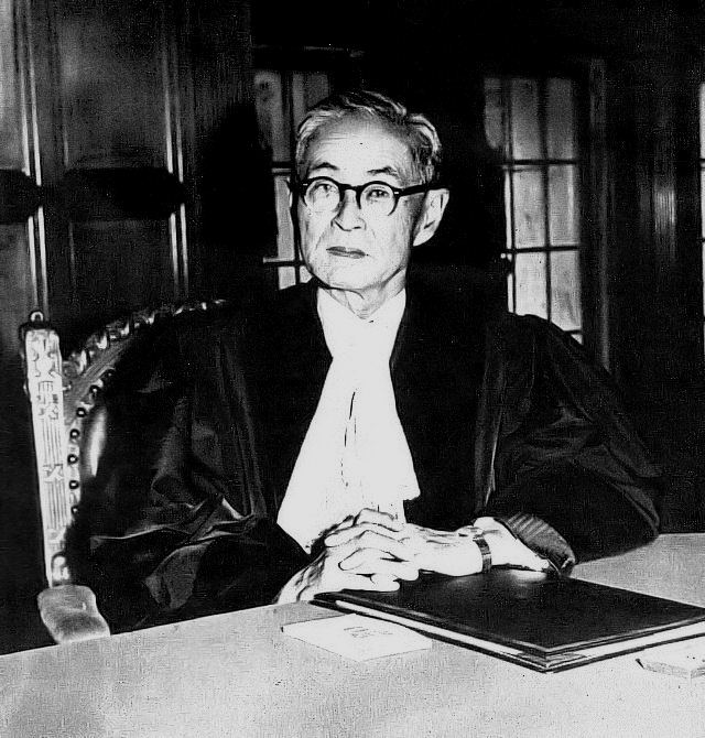 Kotaro Tanaka